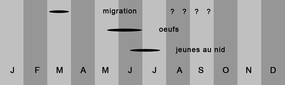 Annual cycle of Olive Warbler, Peucedramus taeniatus (inspired from: Lowther, Peter E. and Jorge Nocedal. 1997. Olive Warbler (Peucedramus taeniatus), The Birds of North America Online (A. Poole, Ed.). Ithaca: Cornell Lab of Ornithology; Retrieved from the Birds of North America Online)